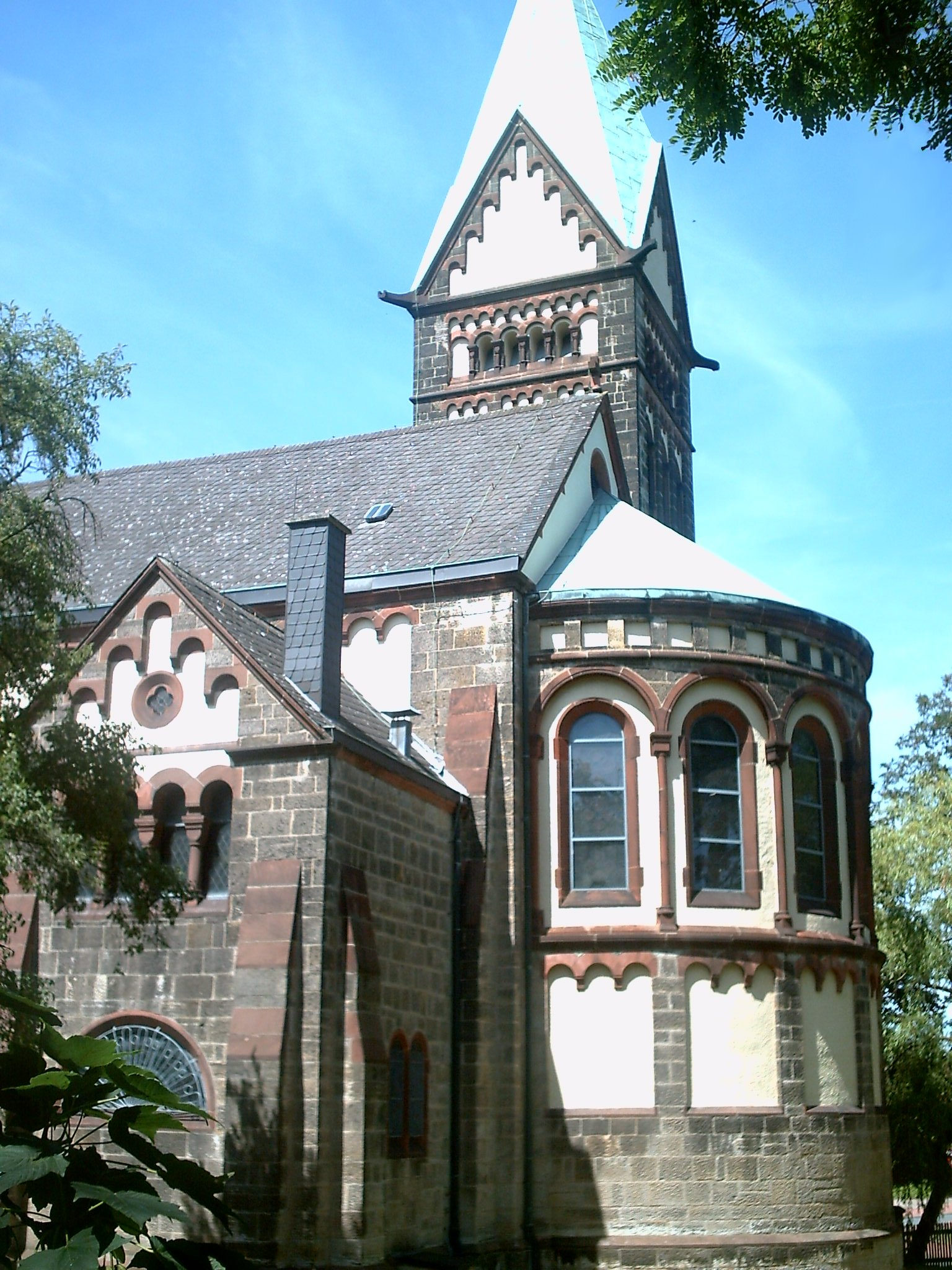 Catholic Saint Joseph church in Obernkirchen